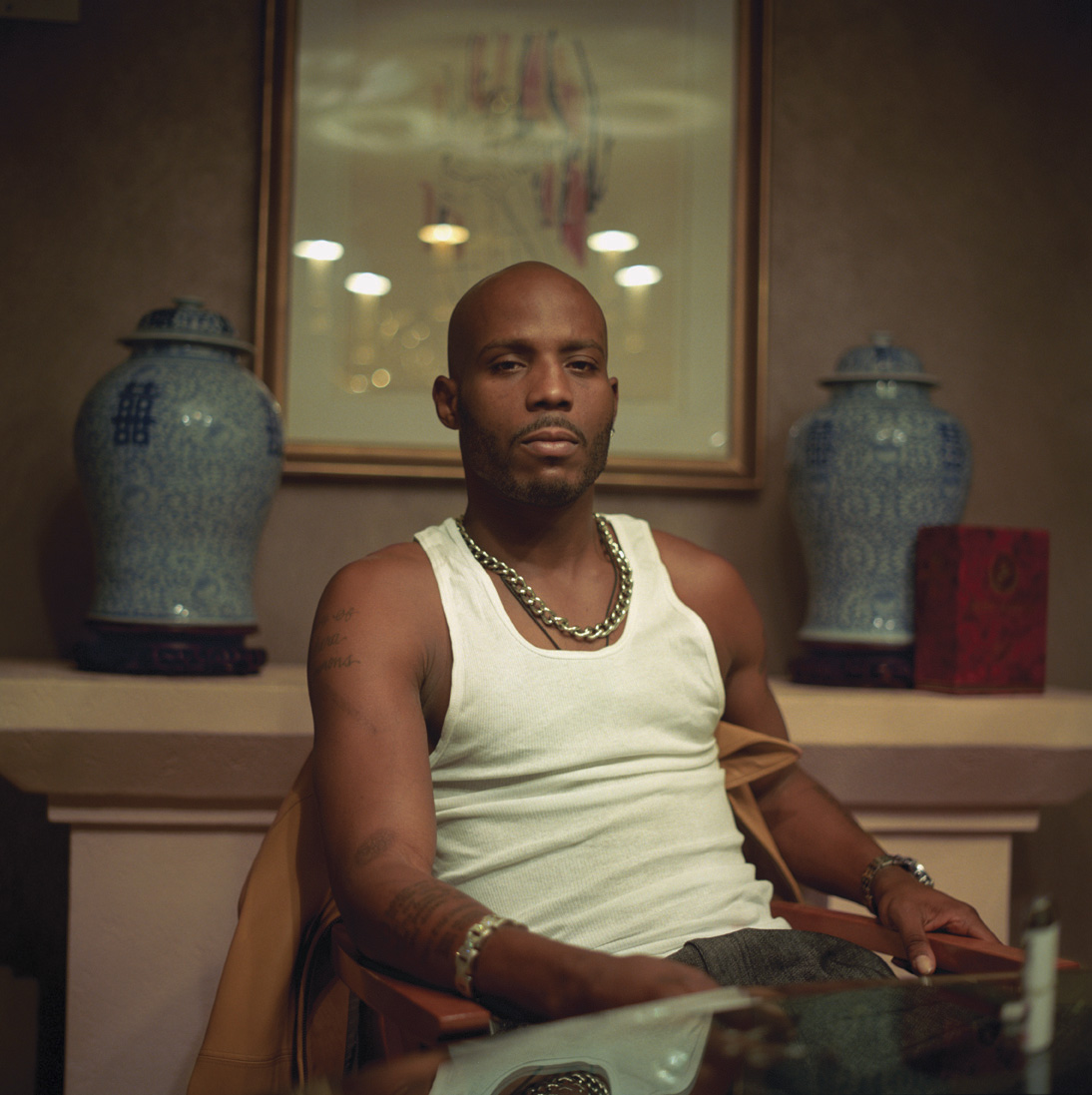 American rapper DMX in Washington, D.C. in October 2001